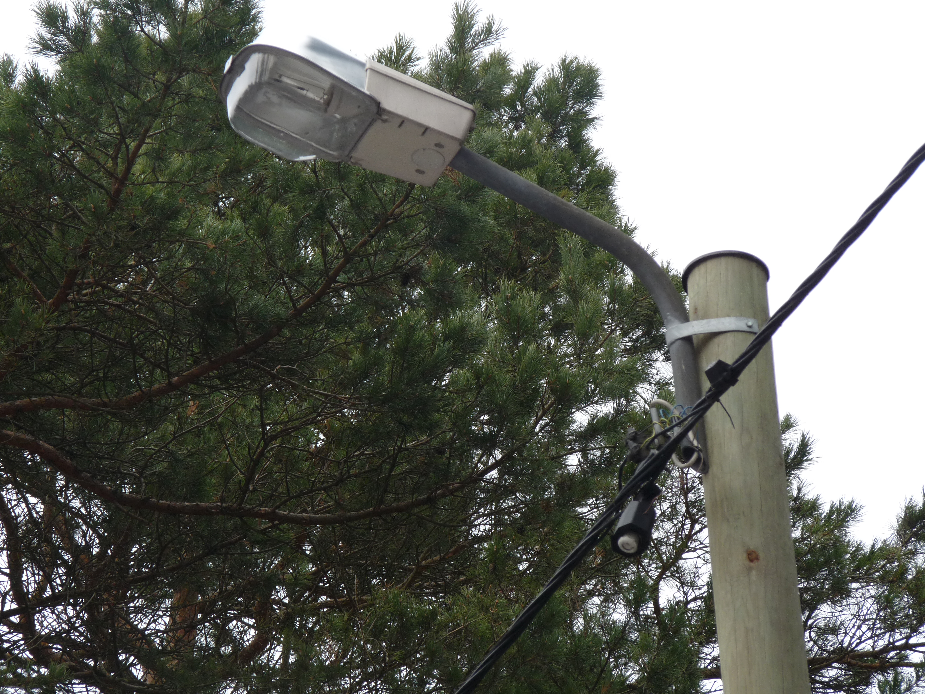 Sodium-vapor lamp